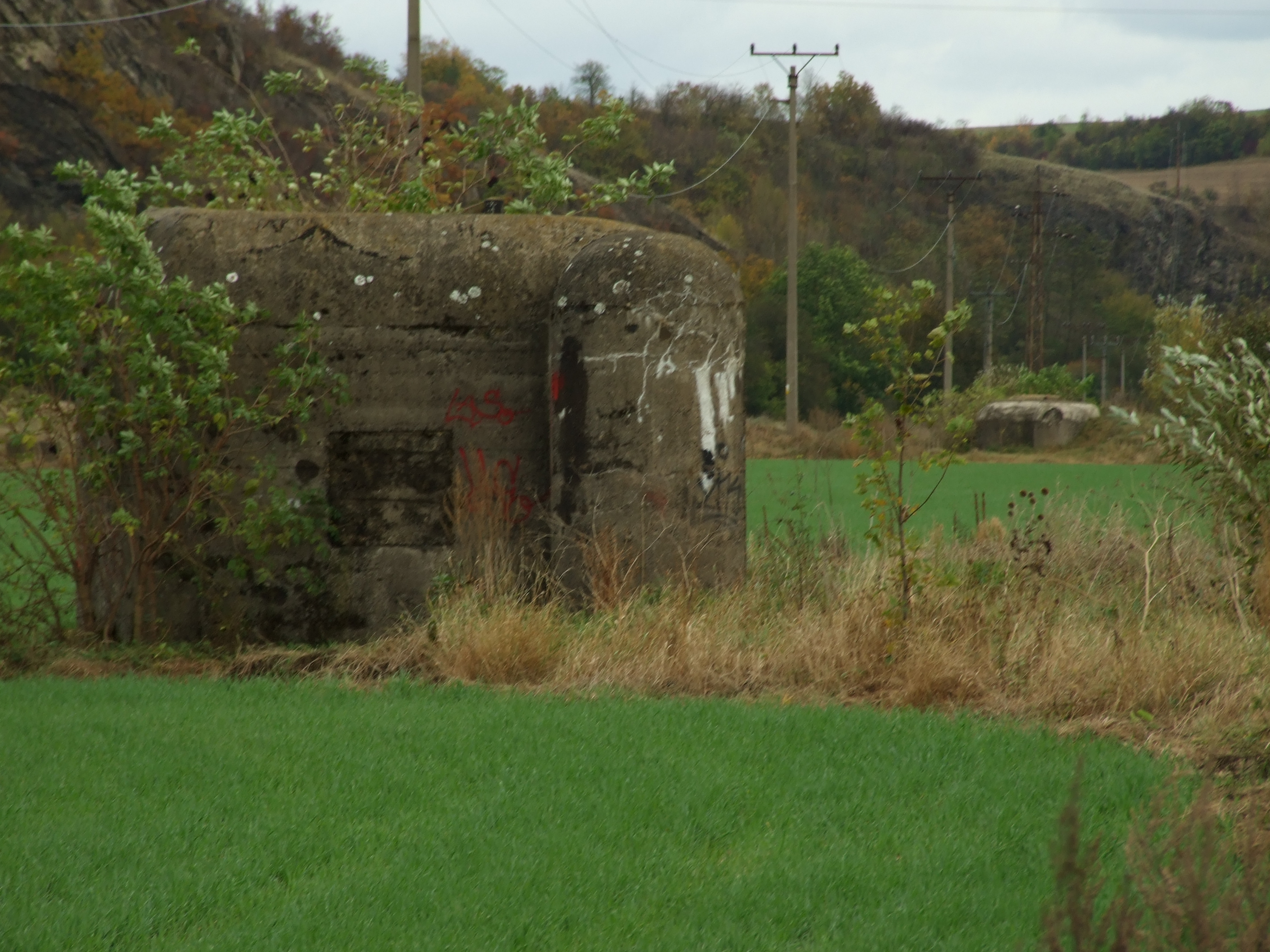 WWII Czechoslovak fortification near Prague between the town of Beroun and village of Srbsko. Central Bohemian Region, CZhelp